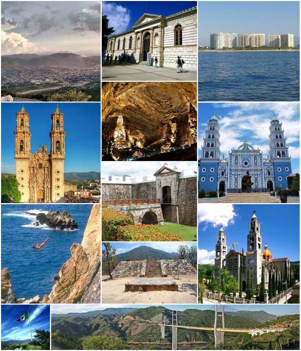 Collage Estado de Guerrero